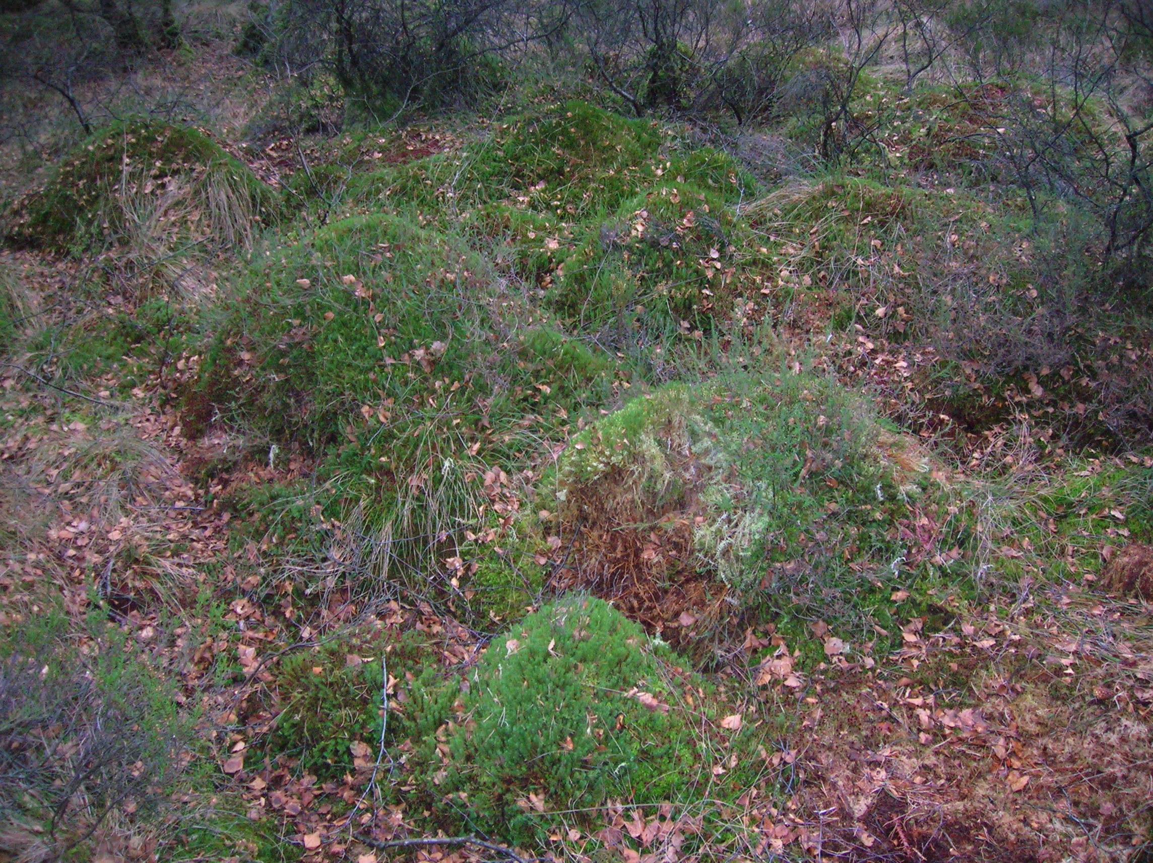 Mossheads in Auchentiber Moss, a lowland raised bog, North Ayrshire, Scotland.